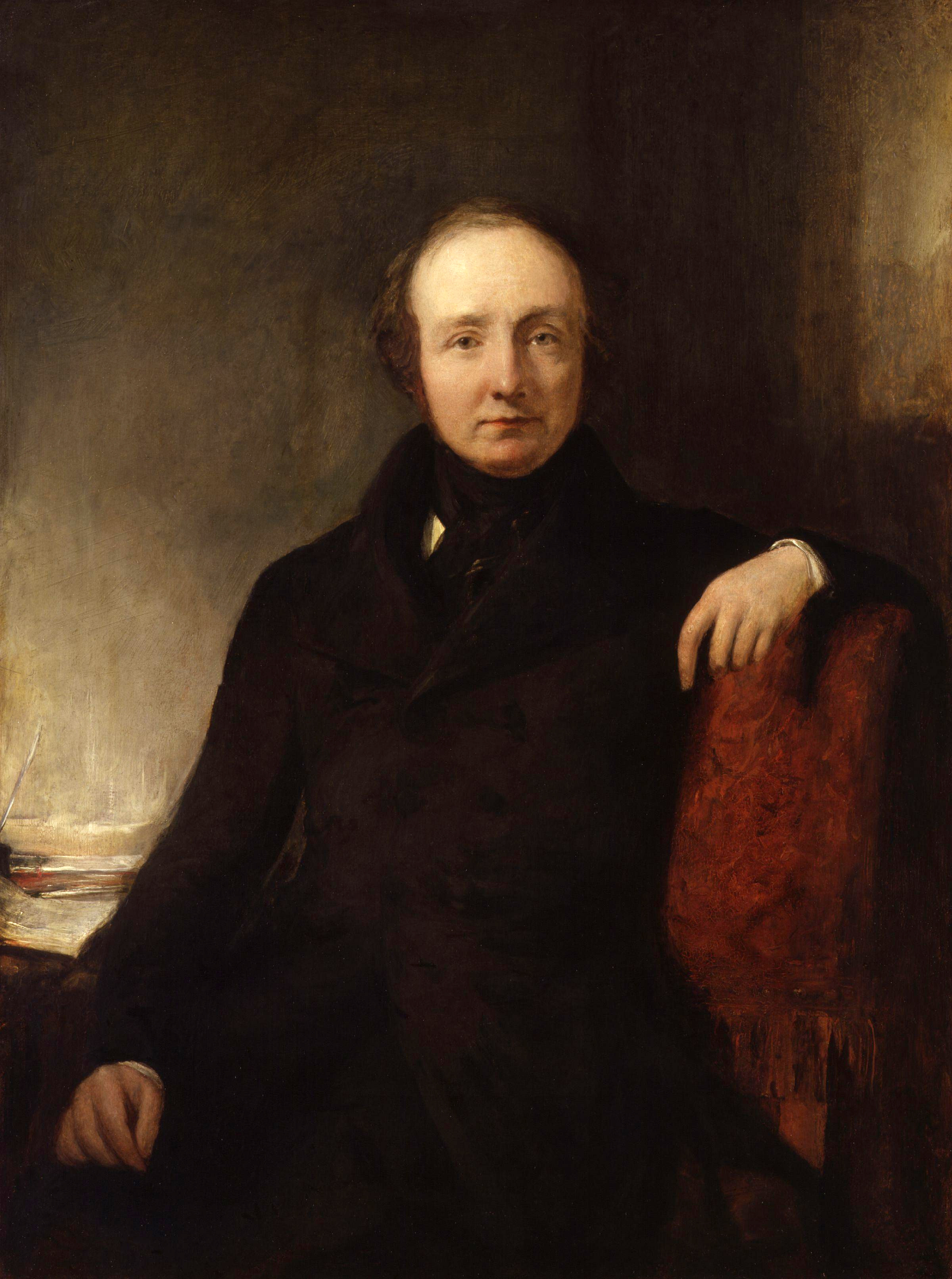 Lewis Cubitt, by Sir William Boxall (died 1879). All images in this batch have been confirmed as author died before 1939 according to the official death date listed by the NPG.